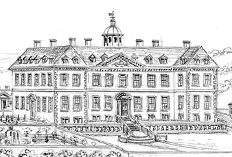 Stowe House, Kilkhampton, Cornwall, built by John Grenville, 1st Earl of Bath c. 1670/85, demolished 1739. Detail from drawing by John chessell Buckler in 1827 copied an unknown original depiction (possibly from the engraving in the collection of Peter Prideaux Brune, see ). Pencil on paper, length: 26.2 cm width: 35.8 cm. Inscribed: "Stowe House near Kilkhampton in Cornwall, the seat of the Grenville family. This house is supposed to be (sic) rebuilt by John the eldest son of Sir Beville Grenville temp. Charles II. It was taken down early in the 18th century"(sic).